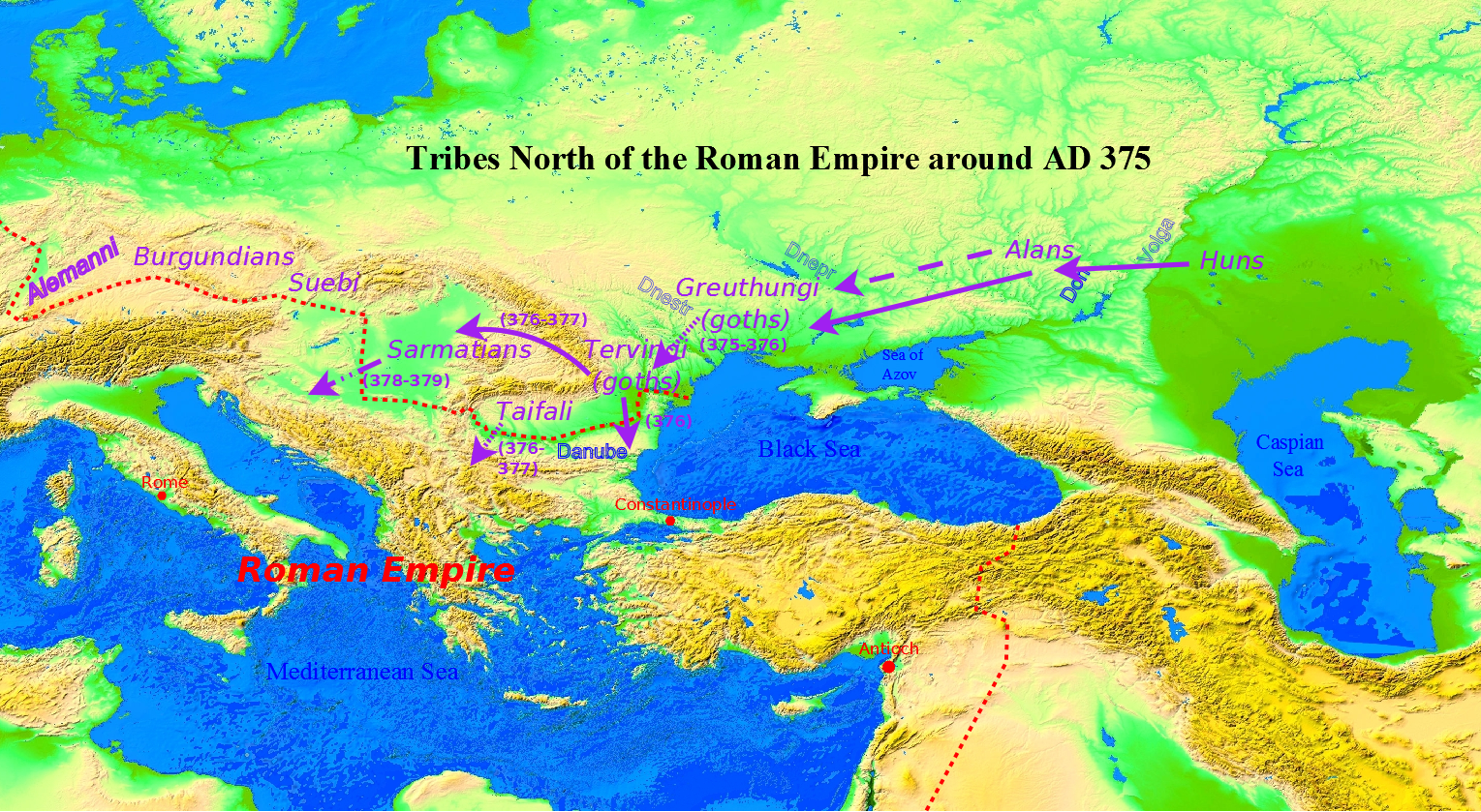 Central and Eastern Europe, ca. AD 375. Showing the movements of the Huns and other tribes North of the Roman border.